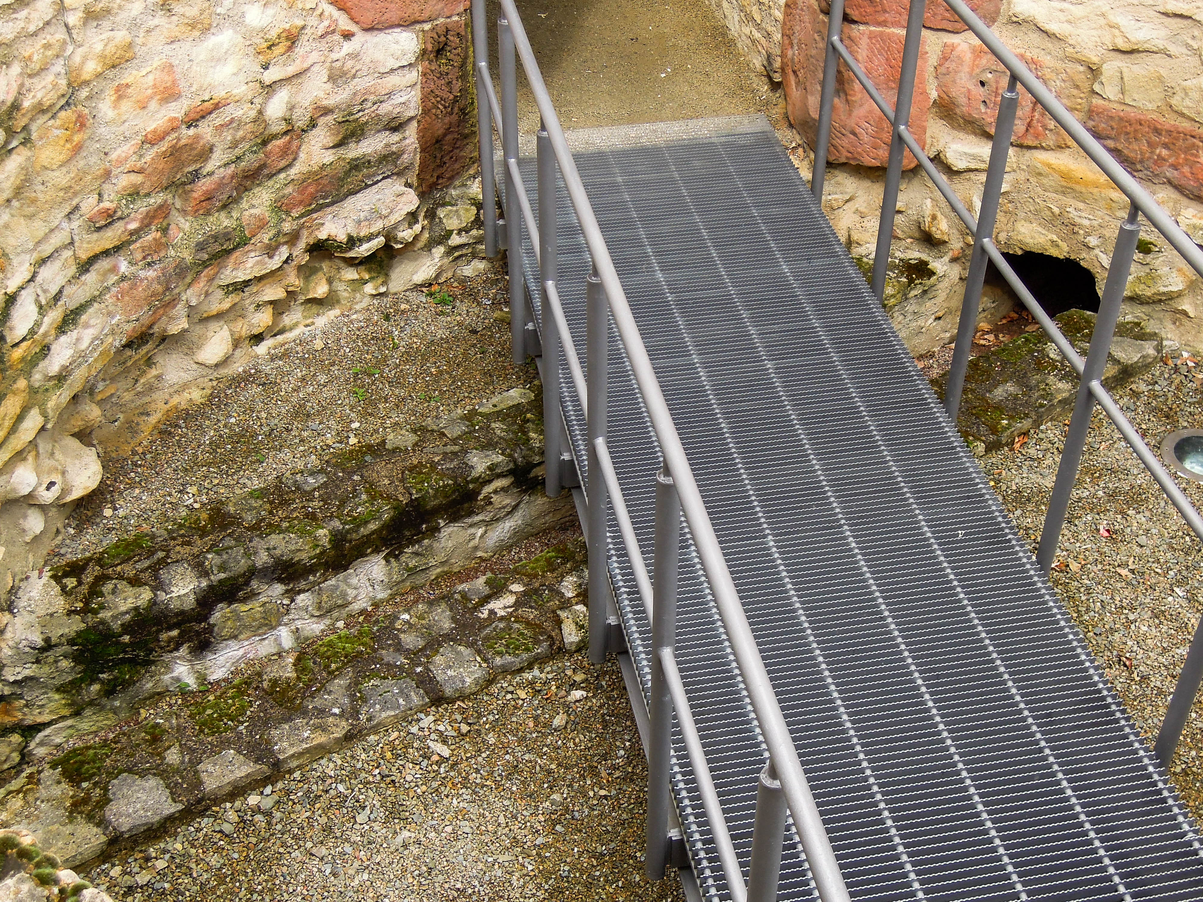 Ingelheim am Rhein, Imperial Palace Ingelheim. Wikidata has entry Q1662969 with data related to this item.